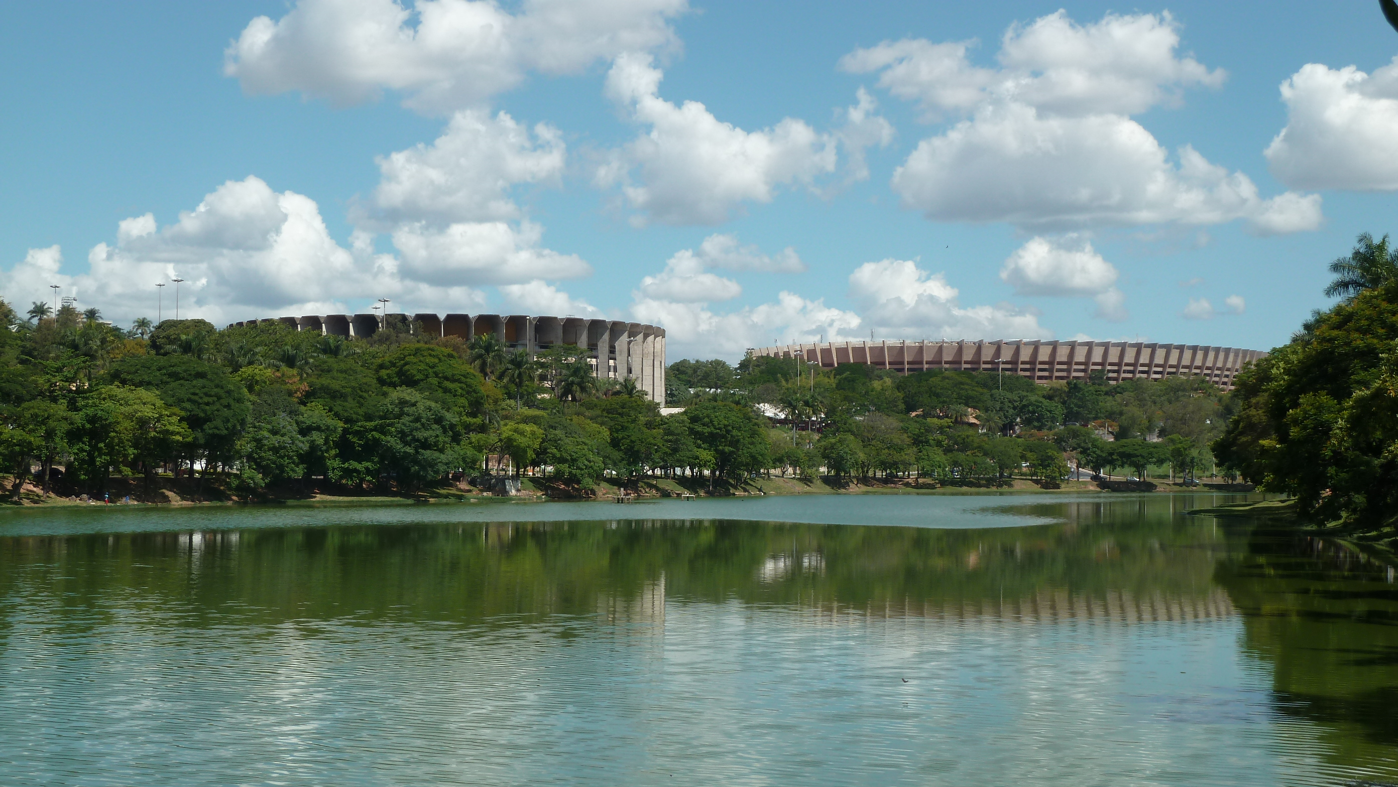 The football stadium of Belo Horizonte (under re-construction for the 2014 Fifa World Cup